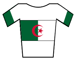 Algeria champion's maillot